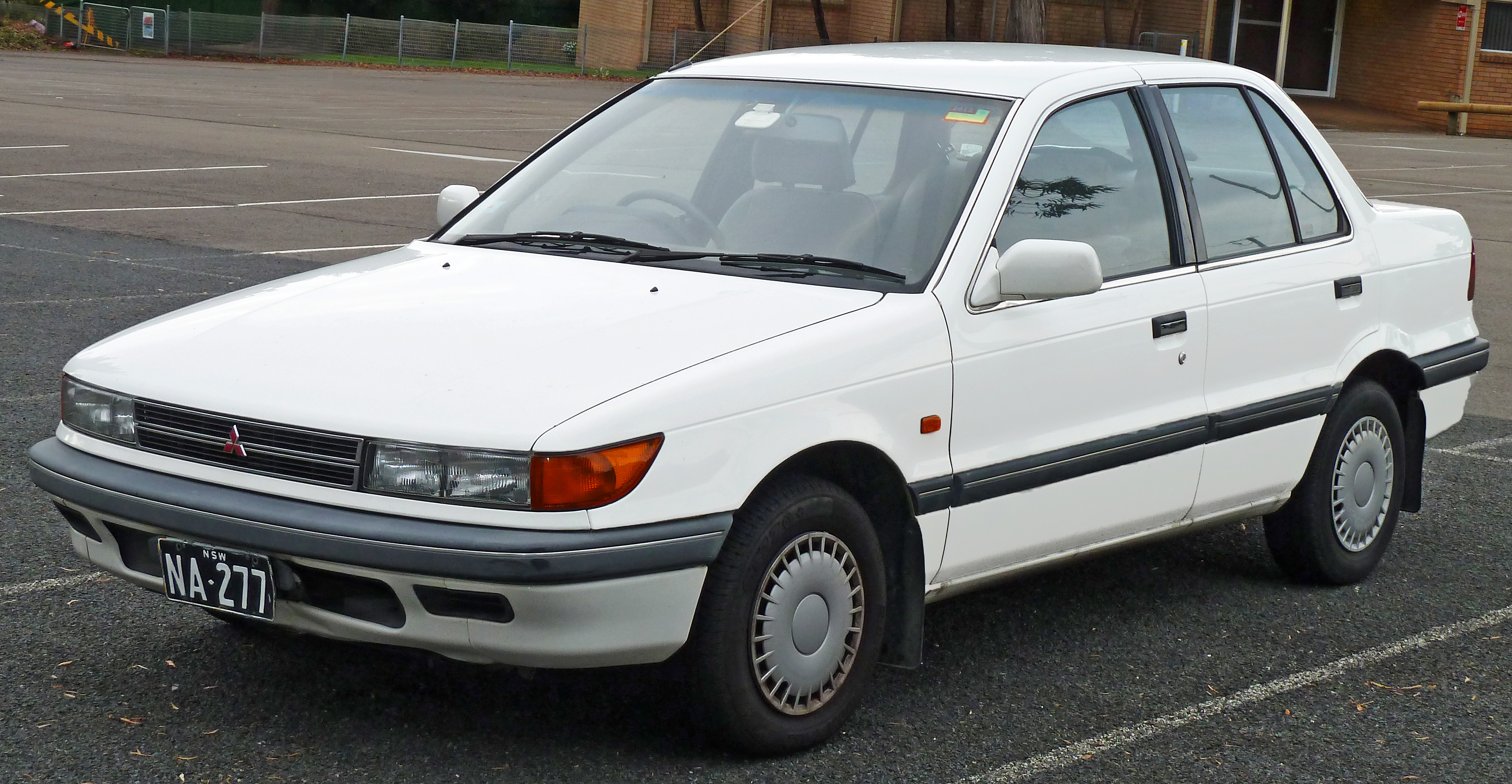 1988 Mitsubishi Lancer (CA) SE sedan. Photographed in Sutherland, New South Wales, Australia.